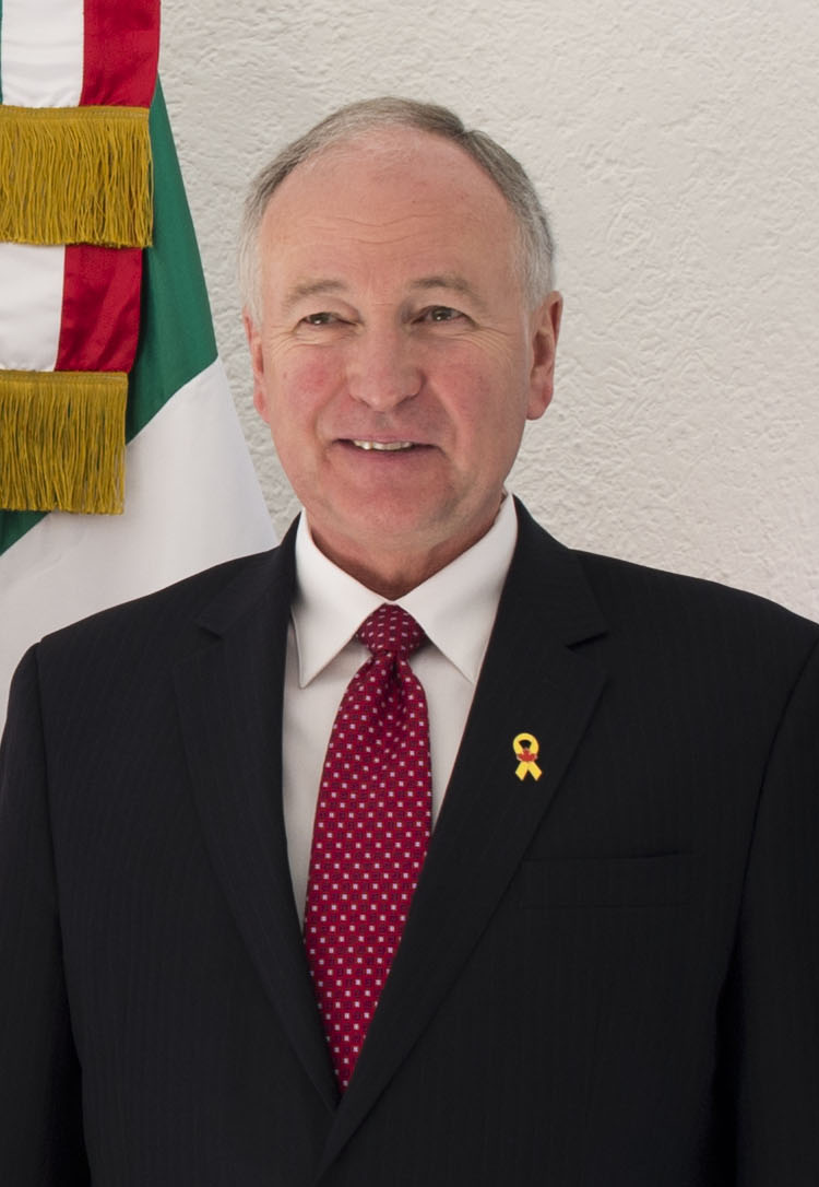 Canadian Minister of National Defense Robert Nicholson in Mexico City at the second North American Defense Ministry trilateral ministerial between Mexico, Canada and the U.S. to discuss issues of mutual importance with defense counterparts.